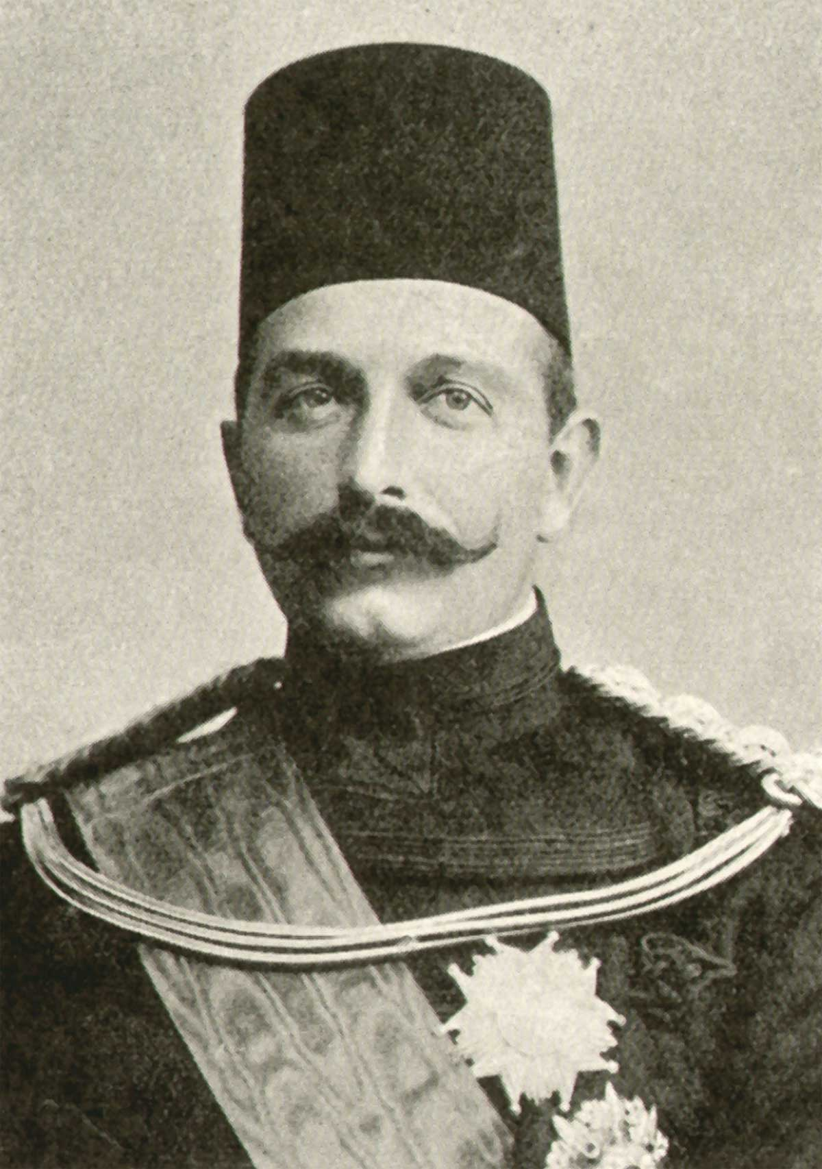 Abbas Hilmi II, Khedive of Egypt (1892–1914)